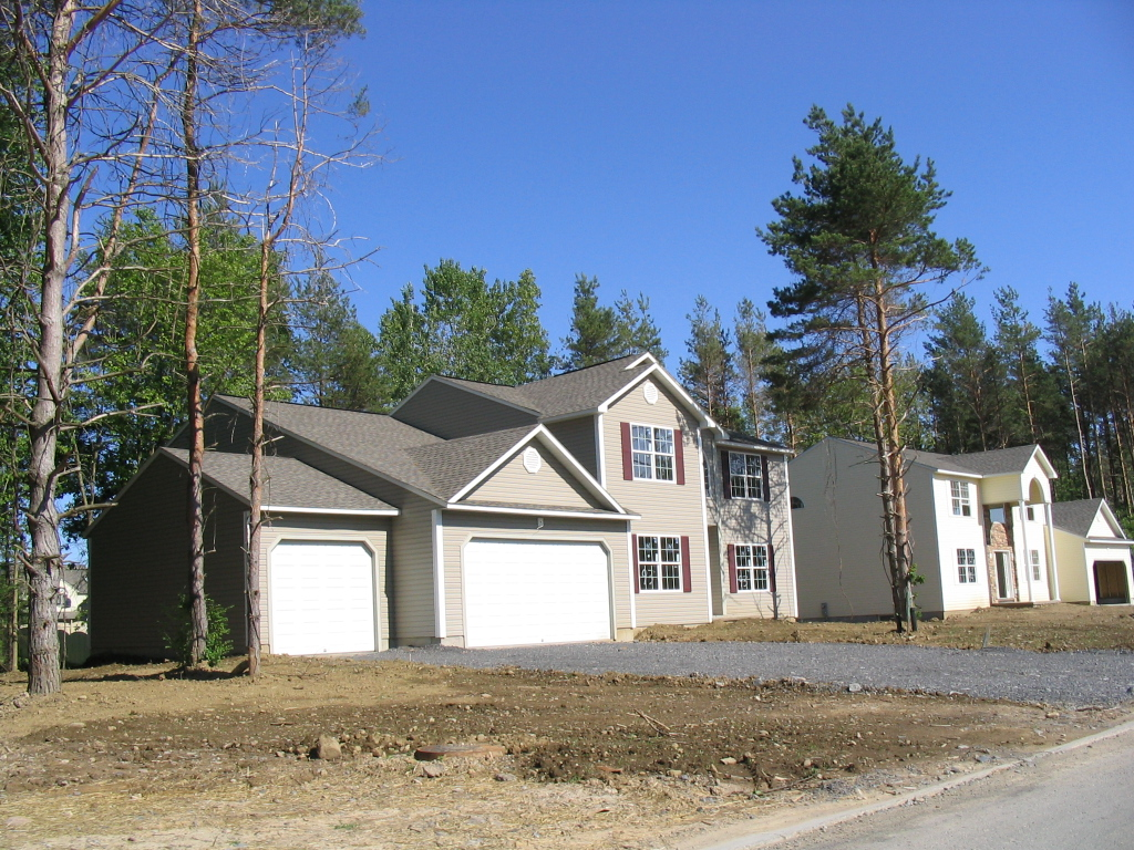 photo of a new housing development in Brewerton, NY, taken by me on June 23, 2004